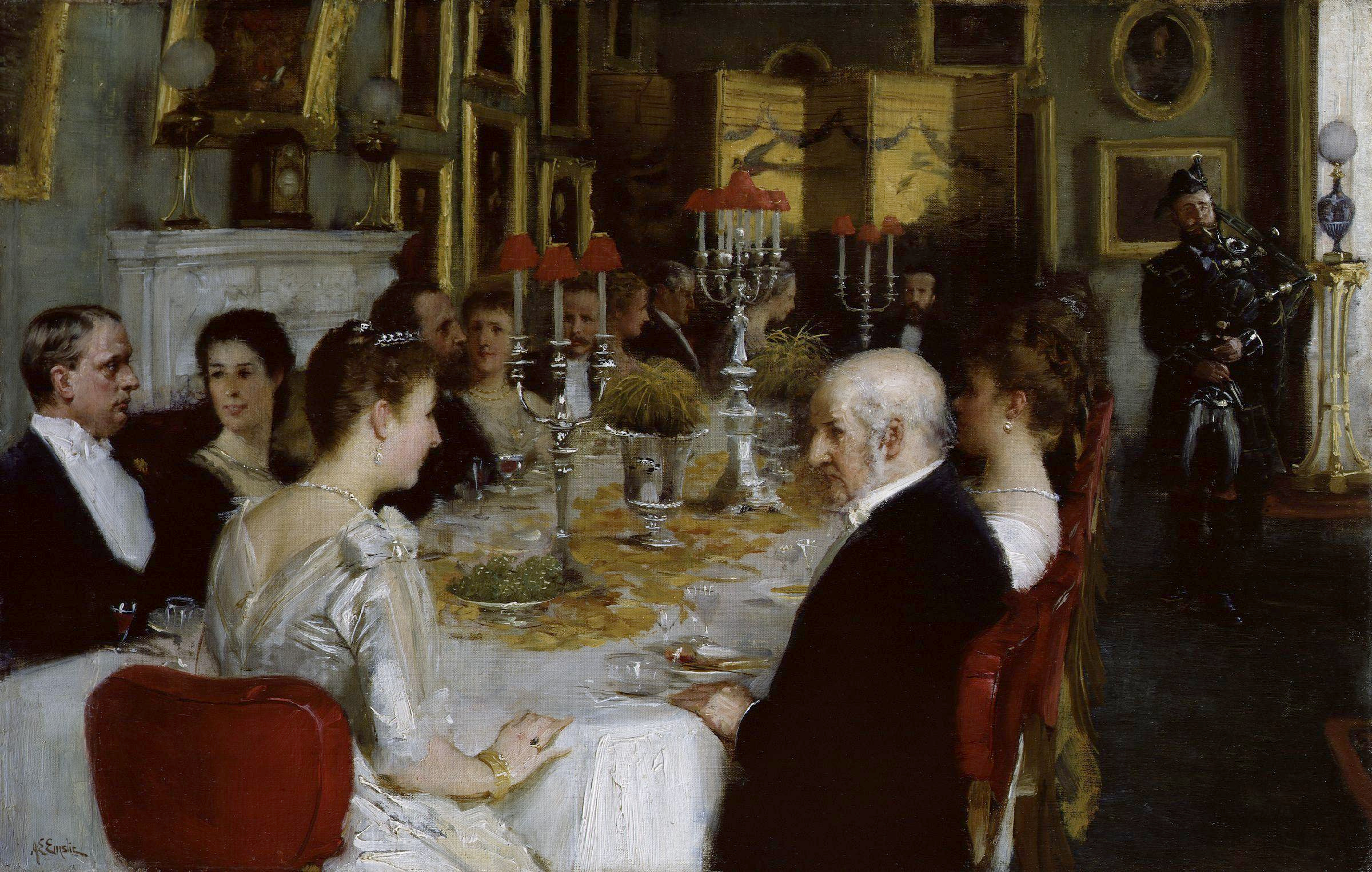 Dinner at Haddo House, 1884, by Alfred Edward Emslie (died 1918), given to the National Portrait Gallery, London in 1953. All images in this batch have been confirmed as author died before 1939 according to the official death date listed by the NPG.